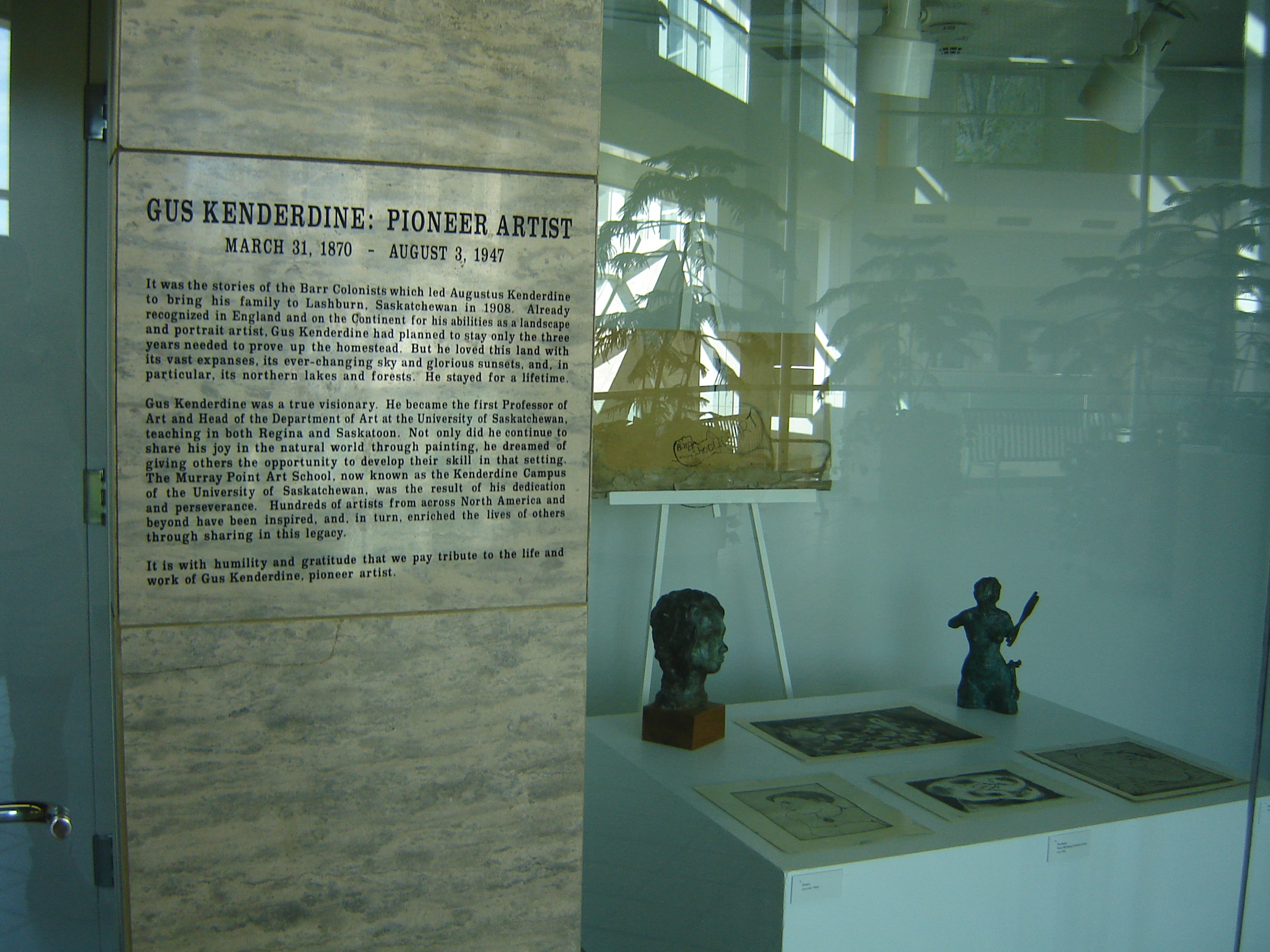 Kenderdine Art Gallery University of Saskatchewan Agriculture & Bioresources College U of S Saskatoon Saskatchewan Canada